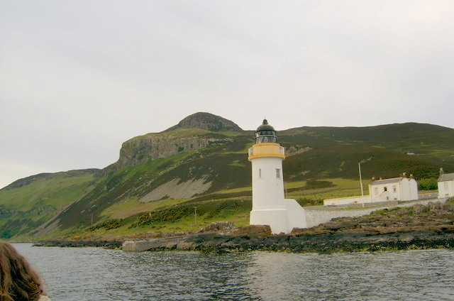 Lighthouse, Holy Island, Arran. This is the lighthouse at the Southern end of Holy Island, taken from the Holy Island Ferry. I have also submitted a photo of the unusual lighthouse on the East side of the Island.